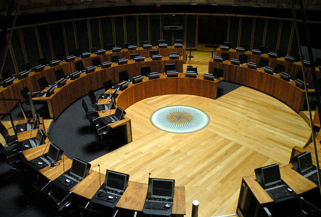 Debating chamber, Y Senedd Shows the AMs' seats with Internet enabled terminals. The artwork in the centre, "The Heart of Wales" is by Alexander Beleschenko, in glass and resin